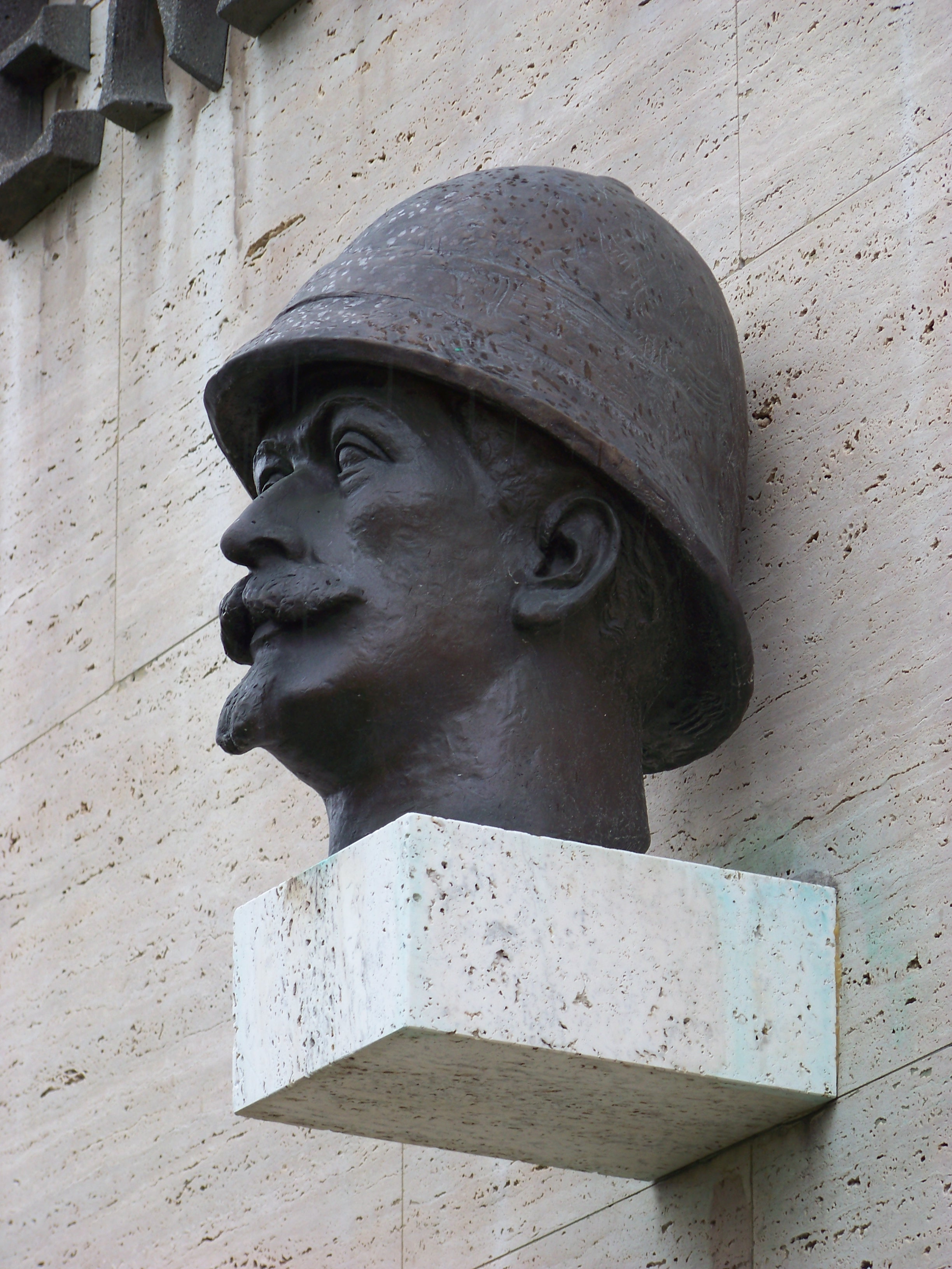 Holice, Pardubice District, Pardubice Region, the Czech Republic. Holubova street, Museum of Dr. Emil Holub.